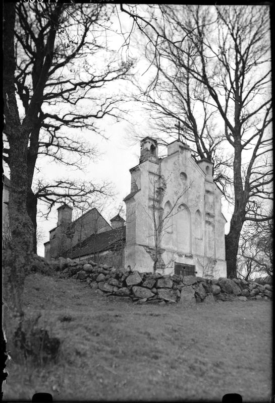 Funeral chapel, Pakėvis, Kelmė district, Lithuania